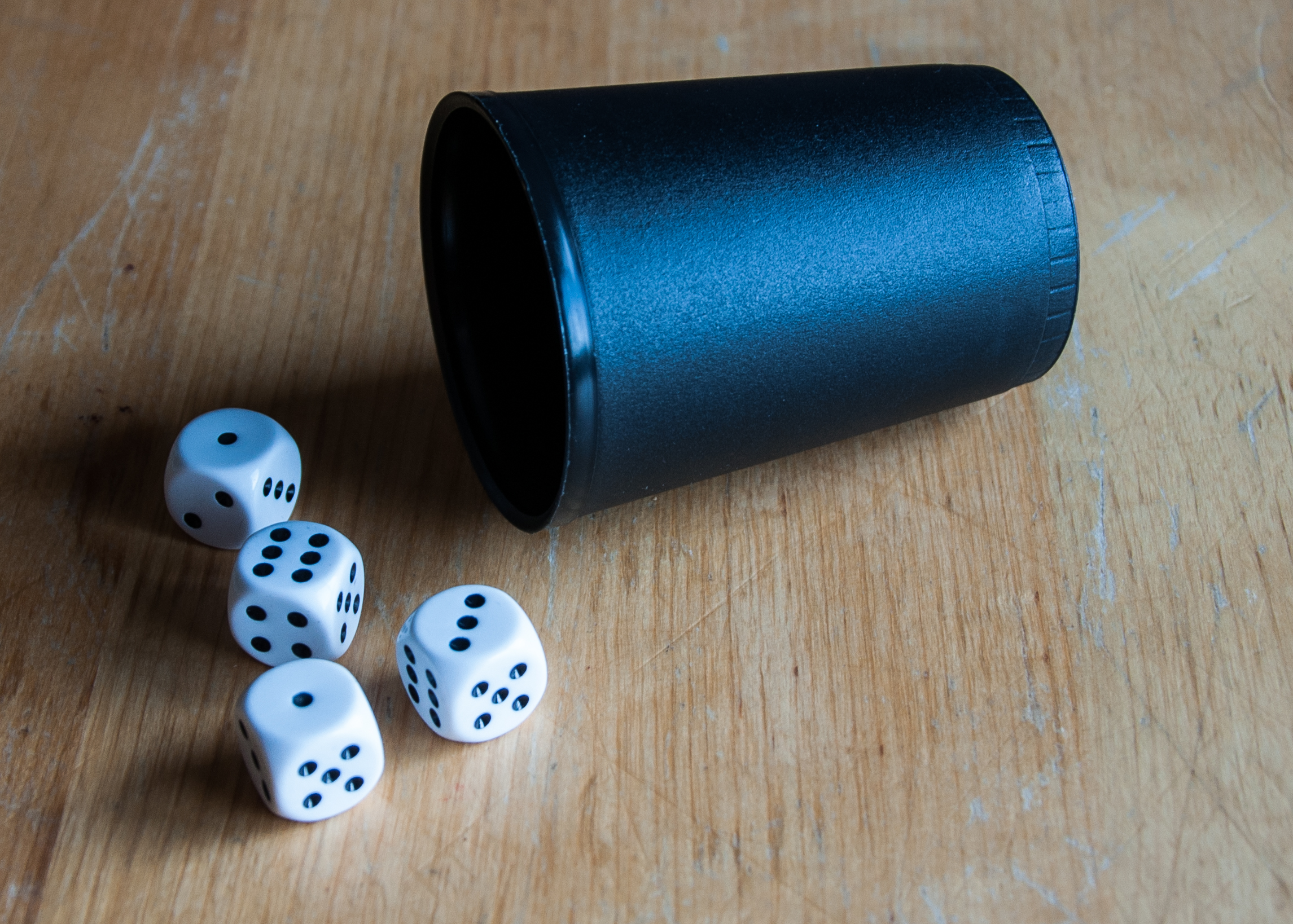 White dice